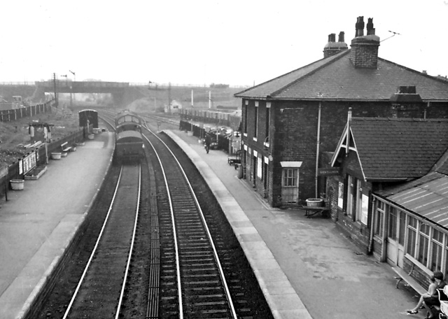 Billingham Station. View SW, towards Stockton; Northallerton/Middlesbrough - Stockton - West Hartlepool - Sunderland - Newcastle main lines. (A Type 3 (Class 37) Diesel stands at the Up platform). Note that it has a brake tender for use with unfitted freight.